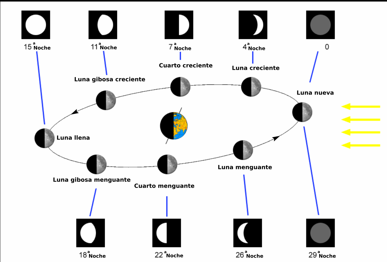 Moon's orbit and phases seen from Earth